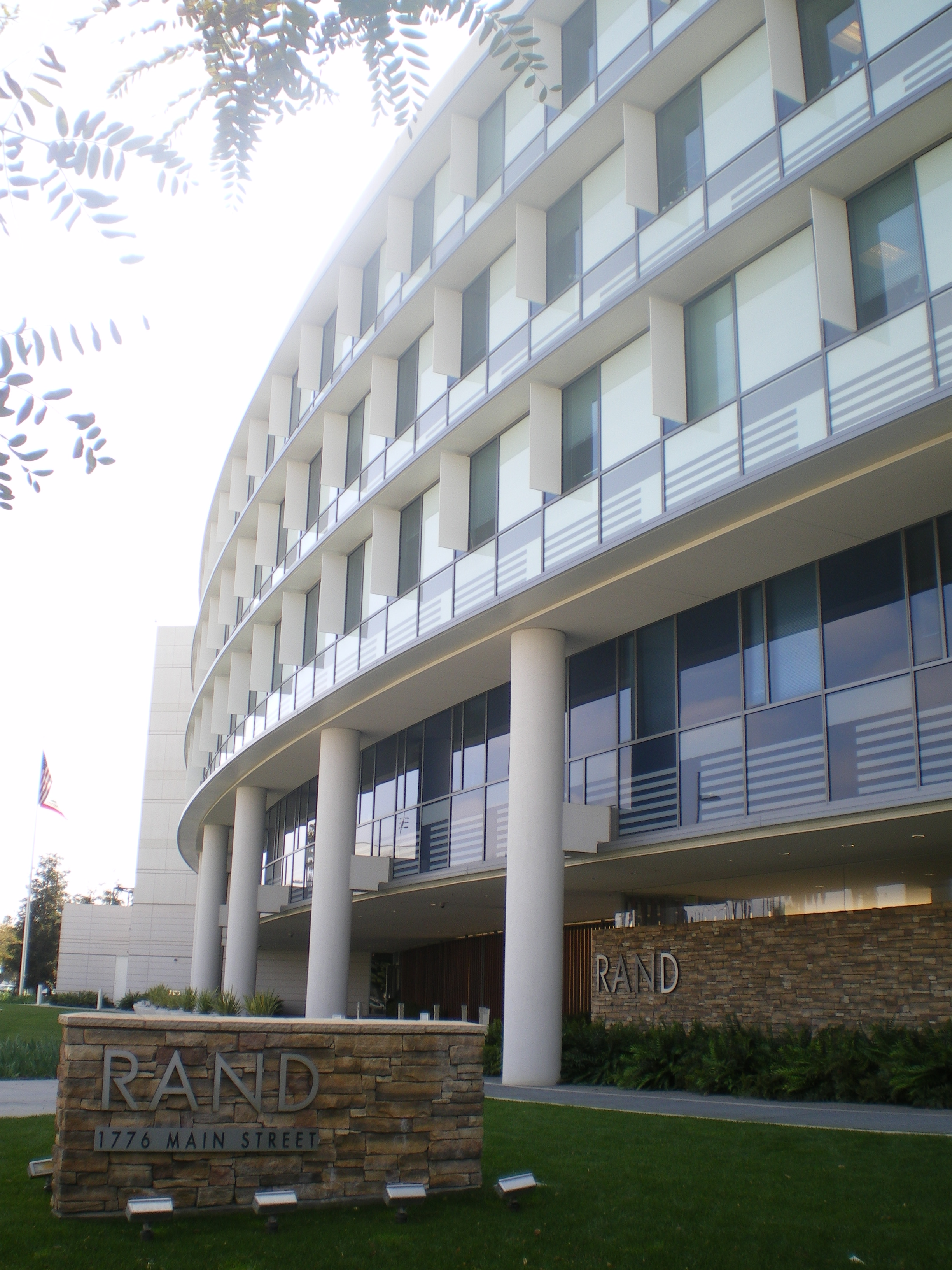 Rand Corporation Headquarters, Main Street, Santa Monica, California